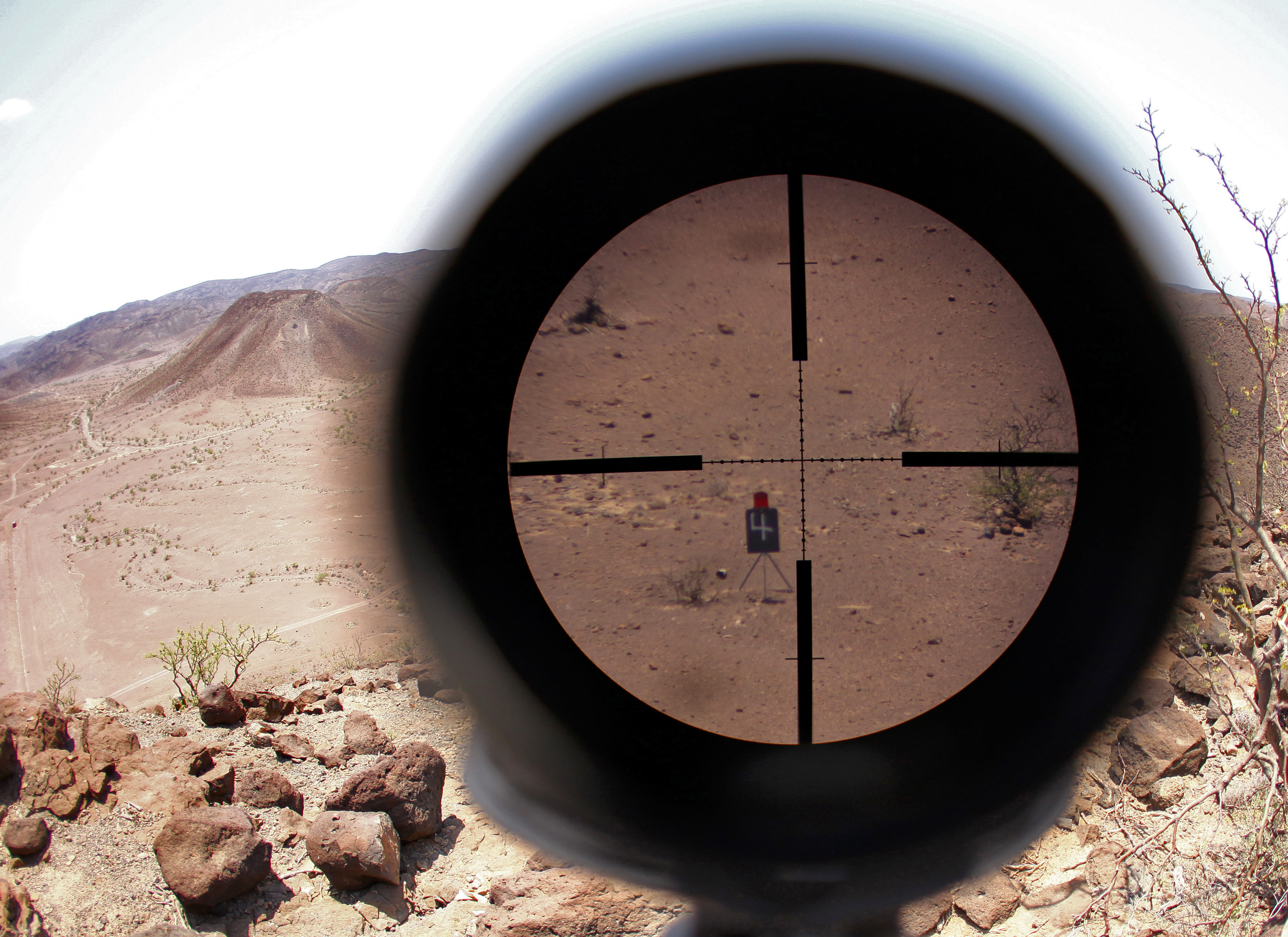 A target seen through a scout sniper observation telescope as Marines with 1st Platoon, Bravo Company, Battalion Landing Team 1st Battalion, 2nd Marine Regiment, 24th Marine Expeditionary Unit, conduct high-angle marksmanship training as part of a three-week training package in Djibouti, Sep. 15, 2012. The training was focused on the application of infantry skills in rugged mountain terrain. The 24th MEU is deployed with the Iwo Jima Amphibious Ready Group as a theater reserve and crisis response force throughout U.S. Central Command and the Navy's 5th Fleet area of responsibility. 24th Marine Expeditionary Unit Photo by Cpl. Michael Petersheim Date Taken:09.15.2012 Location:DJ Read more